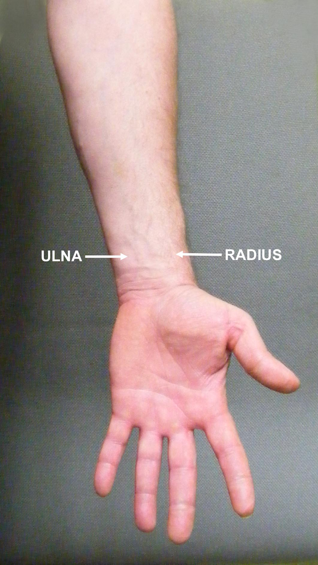 Left forearm - Radius and Ulna